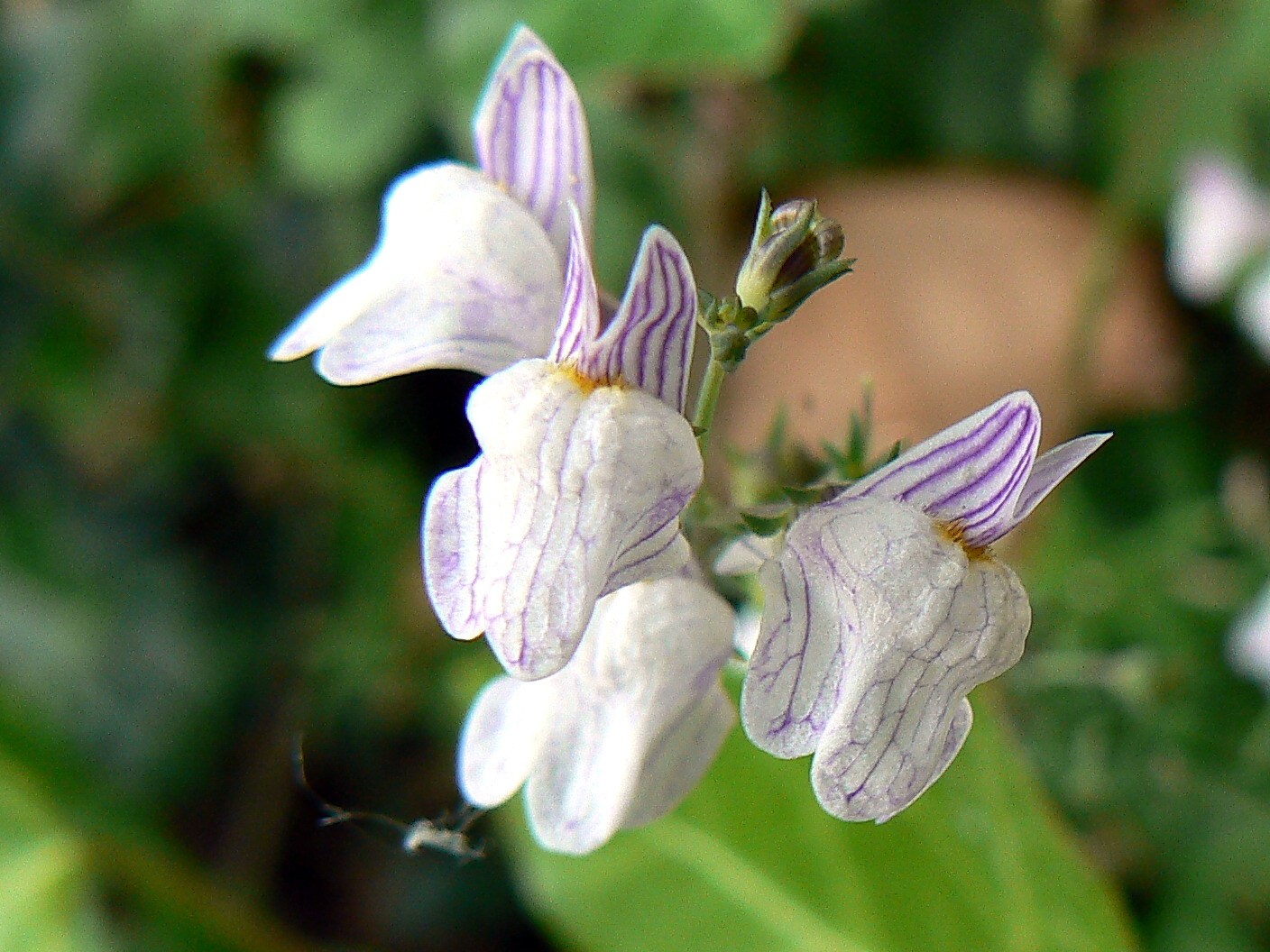 Linaria repens, Vosges, France